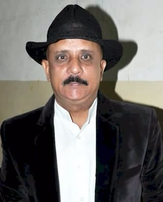 Rajesh Puri at the launch of Ali Peter John's book 'Witnessing Wonders'